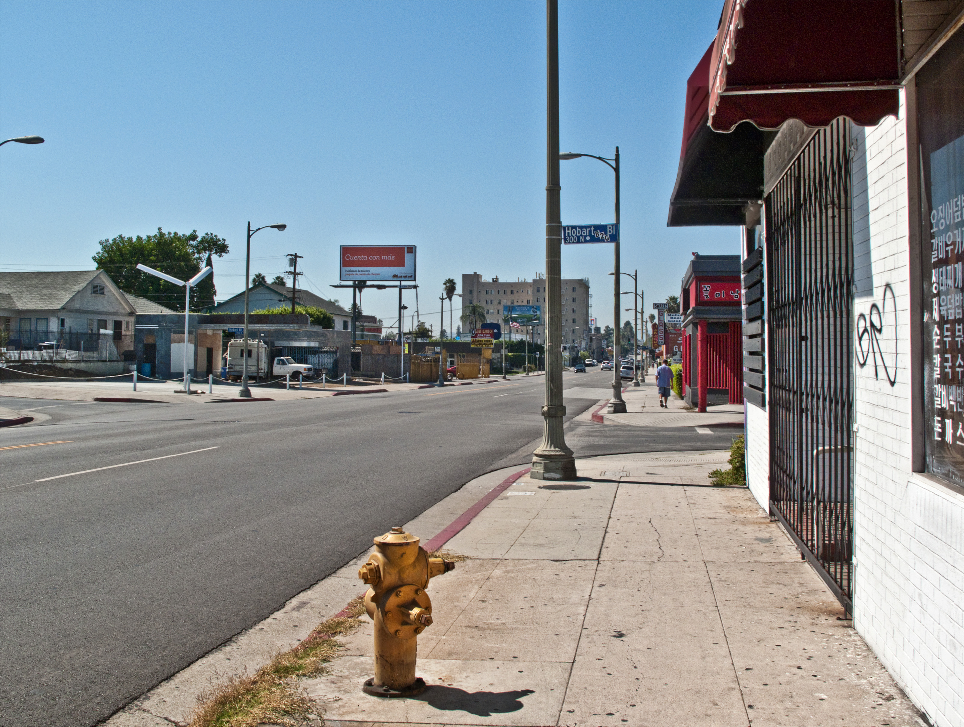 Looking west on Beverly Blvd. at Hobart Blvd, in the Koreatown neighborhood of Los Angeles, California.